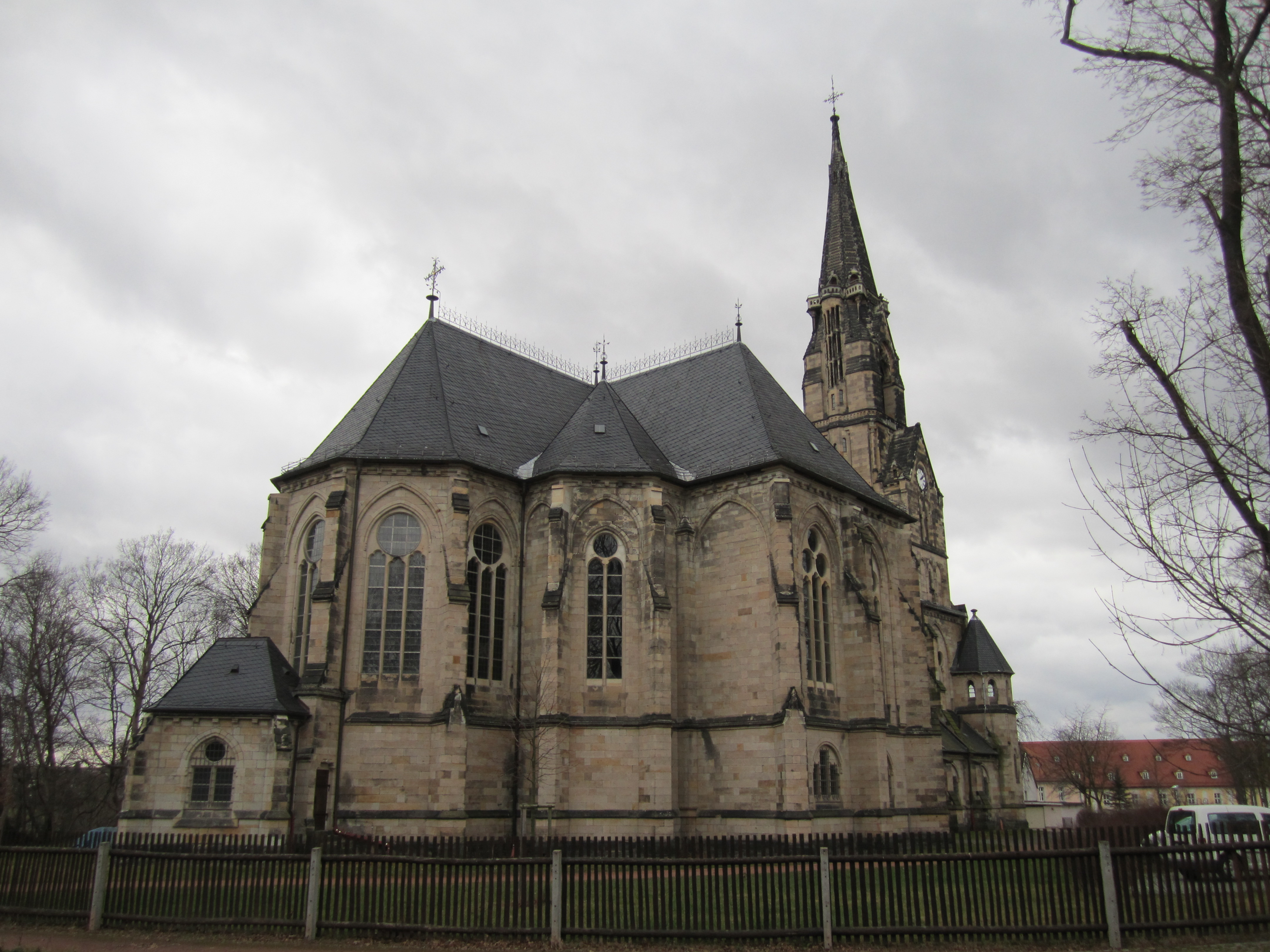 St. Lucas church (lutheran) in Niederplanitz, city of Zwickau, Saxony, Germany.